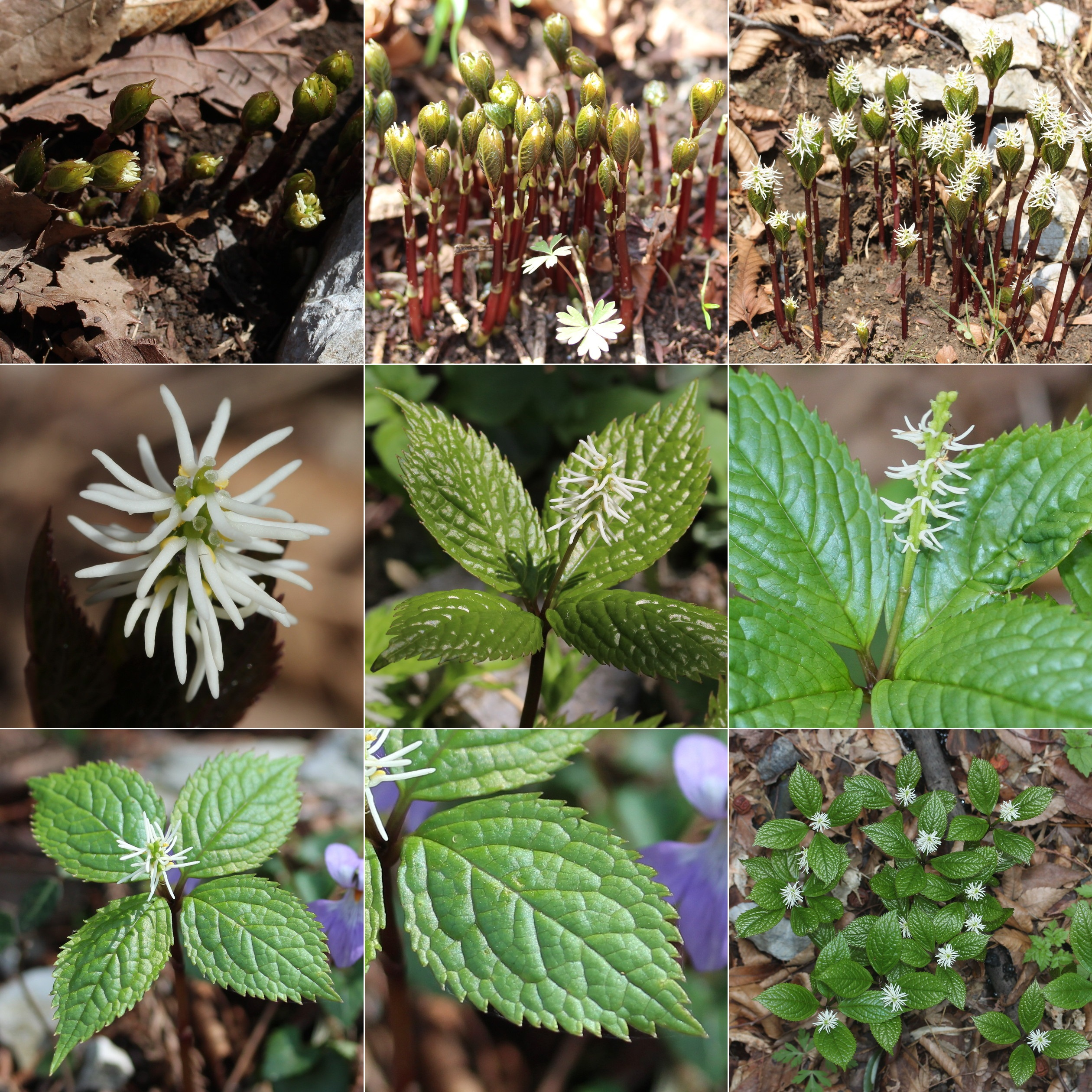 Montage of Chloranthus japonicus in Japan.